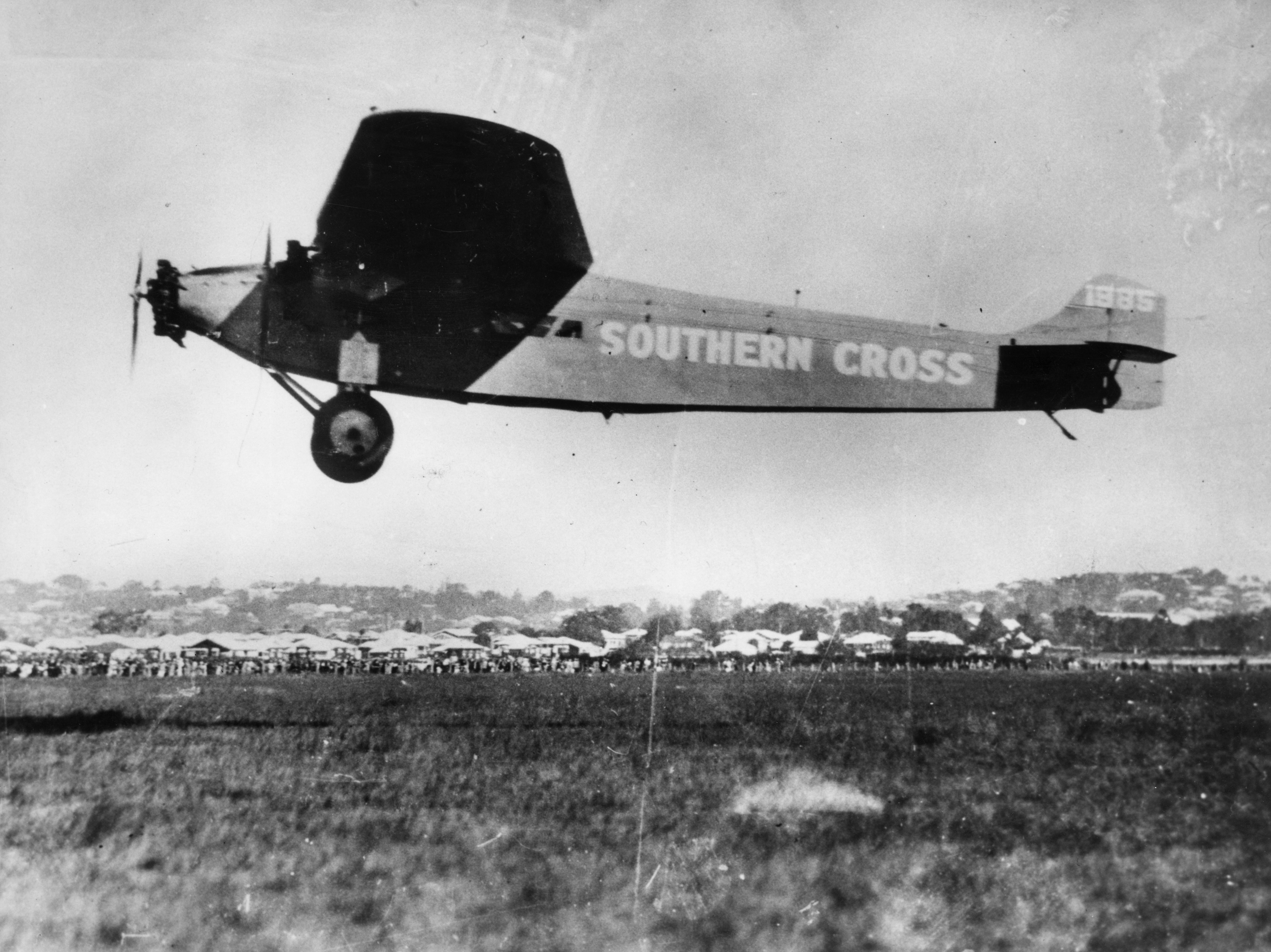 Landing the aircraft, Southern Cross in Brisbane, Queensland, ca. 1928 Inscription on back of photograph reads: ' The big three engine Fokker monoplane.' VH-USU Southern Cross.